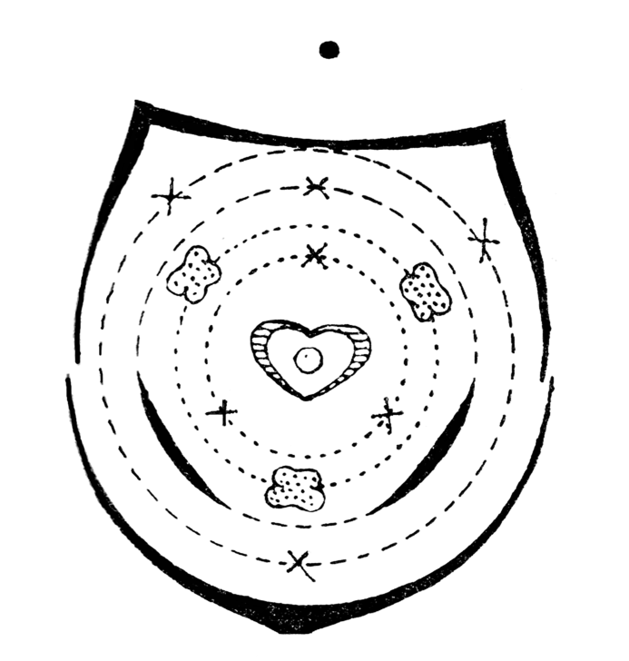 Diagram of a flower of Avena